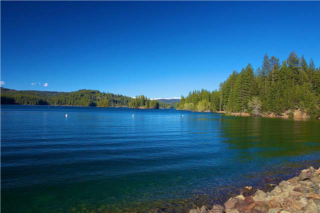 Jenkinson Lake shore